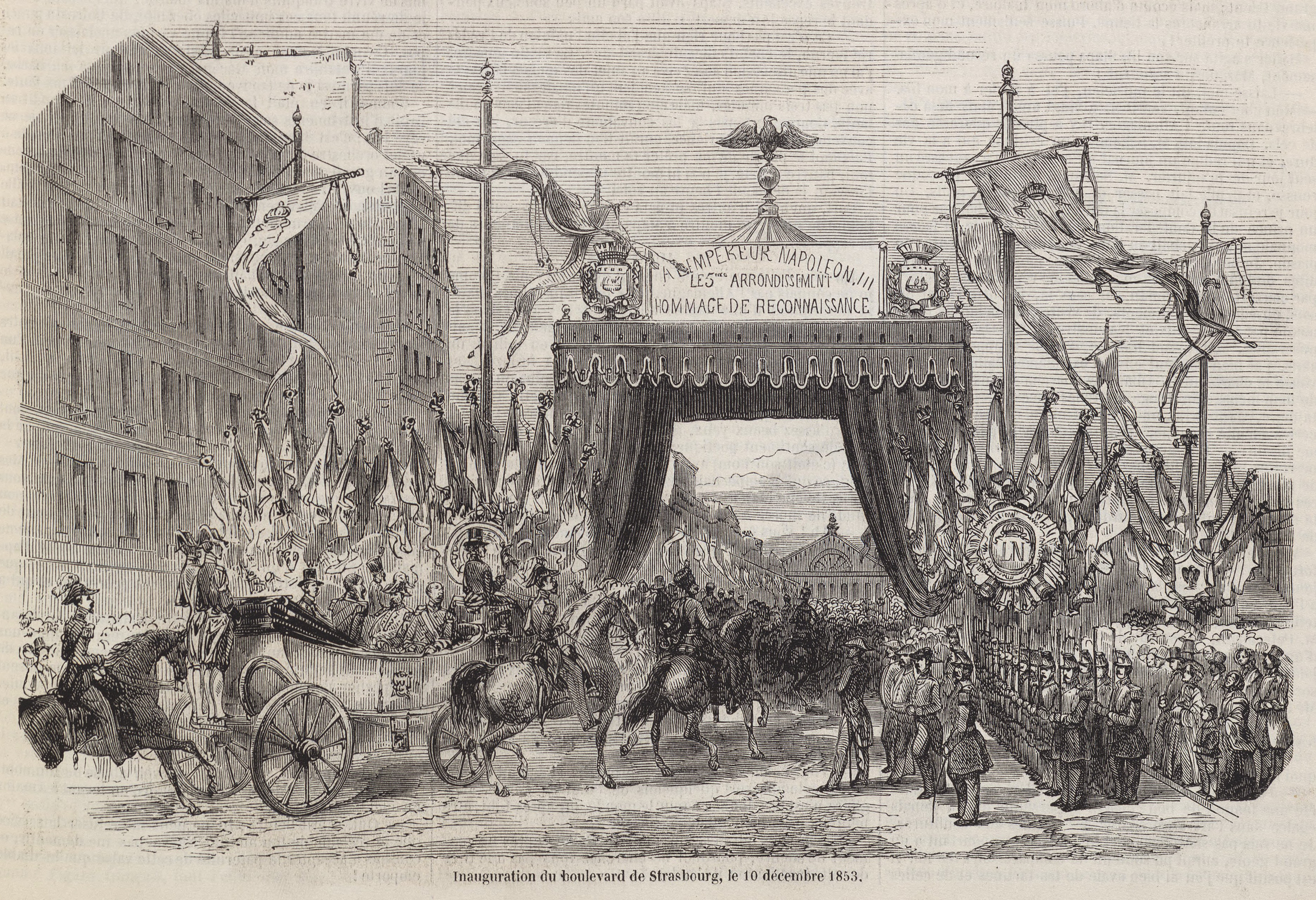 Napoleon III appointed the Baron Haussmann in 1852 to modernize Paris and to create new avenues and boulevards. This print dates from a year later, and represents the inauguration of the boulevard de Strasbourg, which is to this date one of the major streets in the 10th arrondissement of Paris.